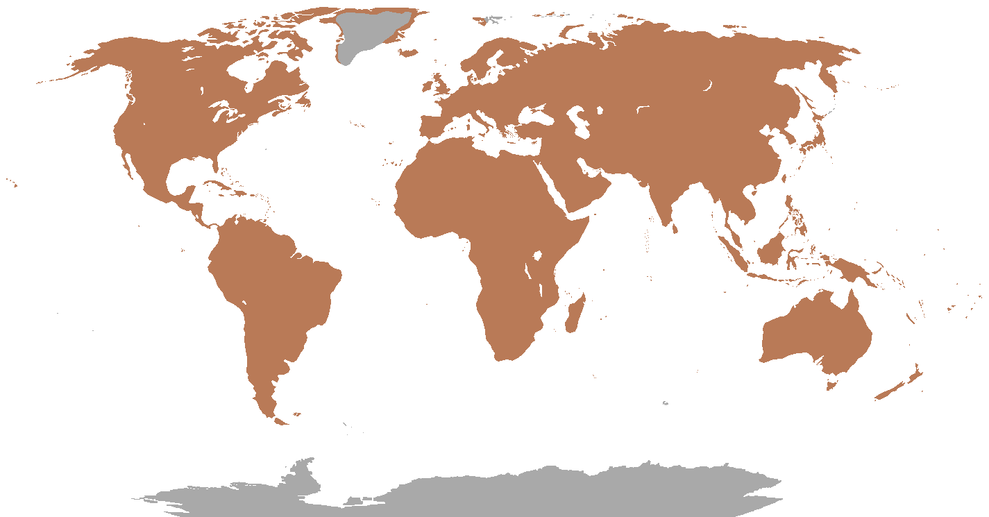 Map showing the range of the Owl.